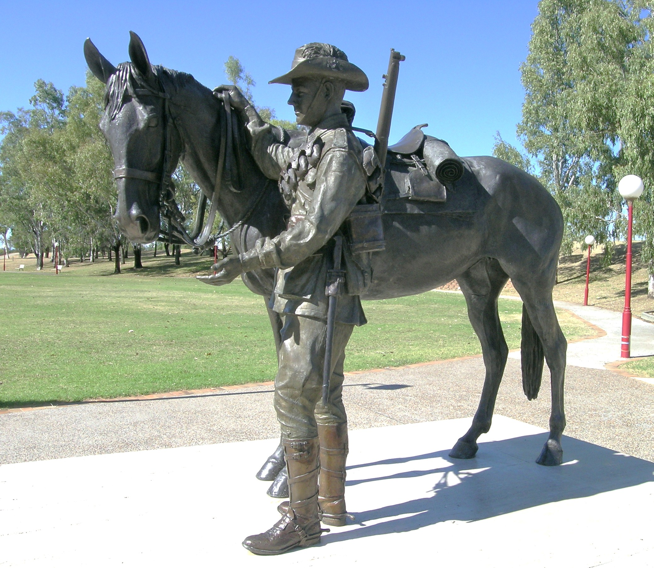 Memorial to the Australian Light Horse, Tamorth, NSW. This bronze statue was sculpted by Tanya Bartlett of Newcastle. Constructed at a cost of $150,000 it was funded by grants from Federal and State Governments, Tamworth Regional Council, Joblink Plus and donations from business houses, property owners, RSL Sub-Branches and the community